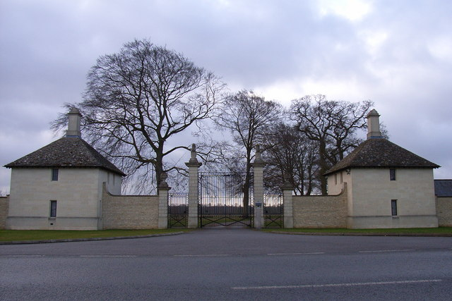 Gates and gatehouses to Tusmore Park, Oxfordshire